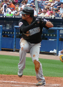 I took this photo on June 5, 2007 04:39, 8 June 2007 . . Chrisjnelson . . 203×282 (120,490 bytes)